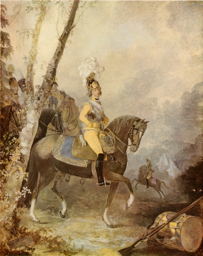 King Gustav IV Adolf of Sweden, dressed in the uniform of Livregementsbrigadens kyrassiärkår.